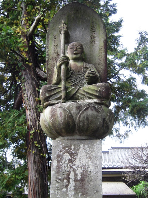 Jizo by the Edo-period monk Hogyu at Ojoin in Kumamoto, Japan